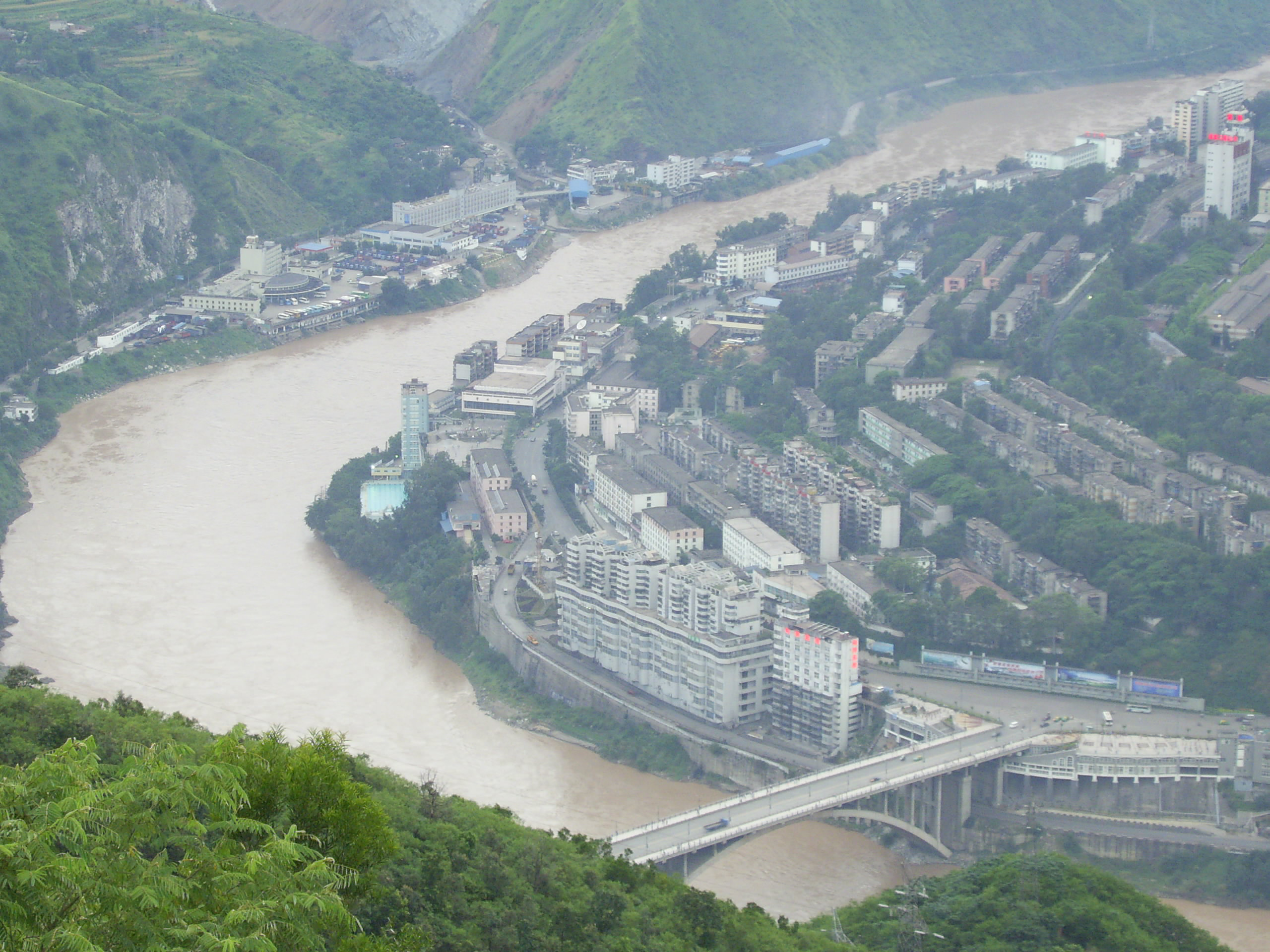 Xiangyangcun block overlook from Donghuashan Park in Panzhihua. You can see Dukou Bridge over Jinsha River and the inter-city coach station of Panzhihua on the river bank.